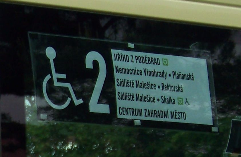 Záběhlice, Prague, the Czech Republic. Minibus of Societa, a special minibus line for disabled people.